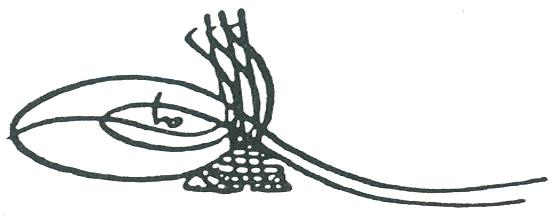 Tughra (i.e., seal or signature) of Mustafa I, Sultan of the Ottoman Empire (1617-1618; 1622-1623). An explanation of the different elements composing the tughra can be found here.